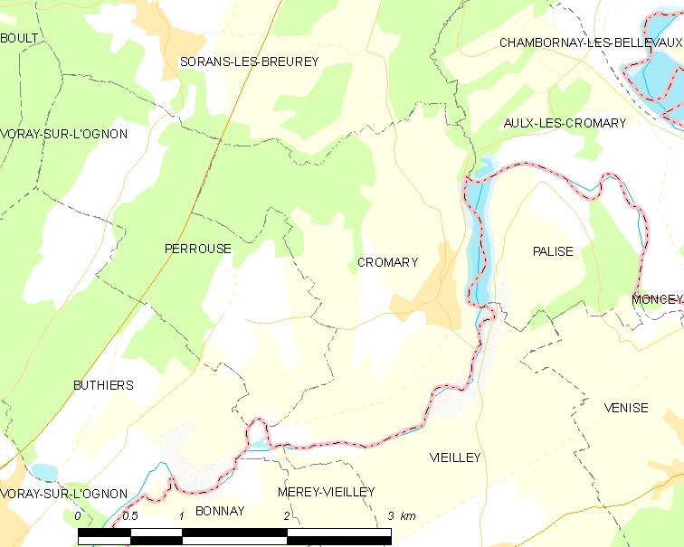 Map of French municipality